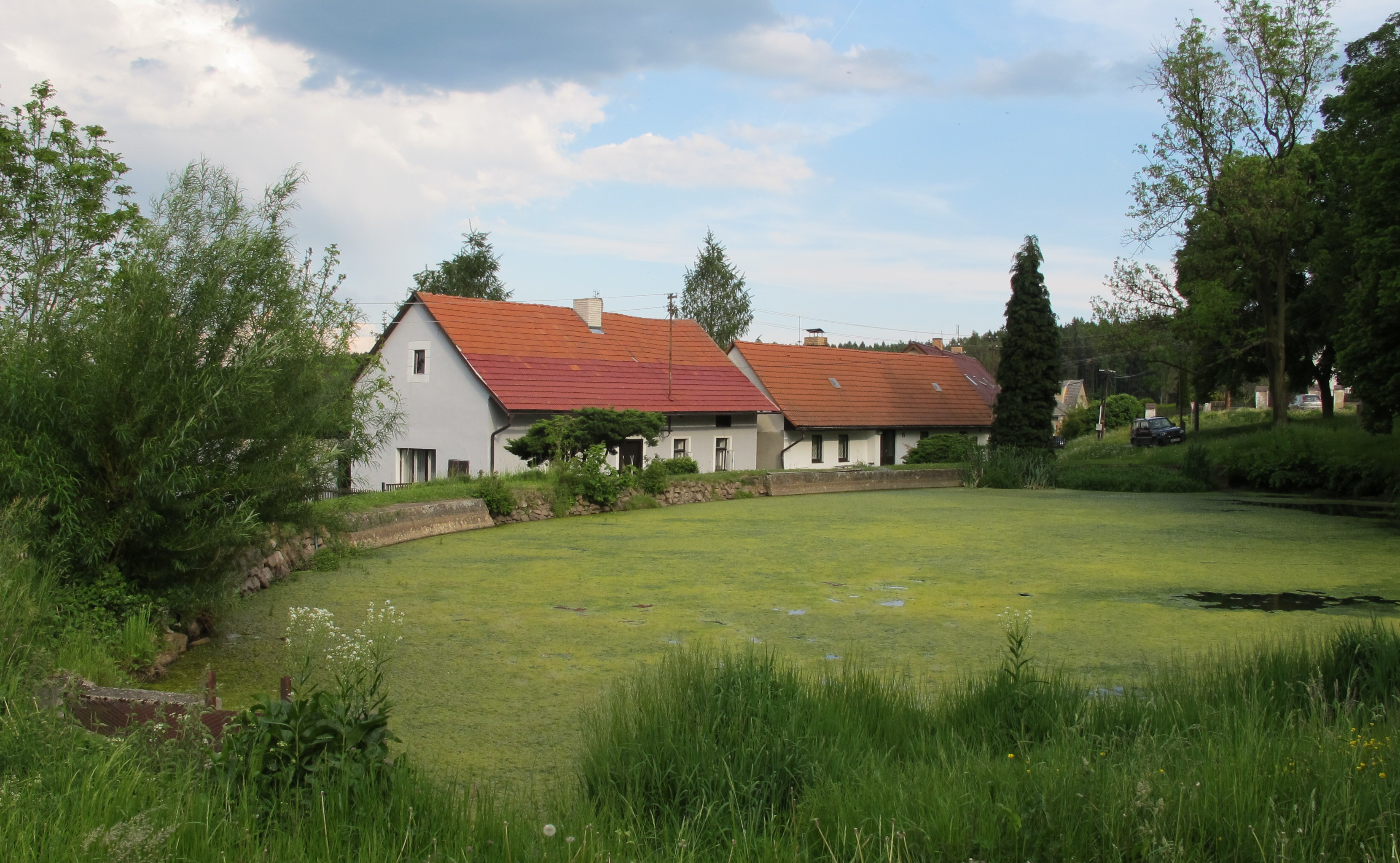 Křešín is a little municipality between Felbabka and Jince, Příbram District